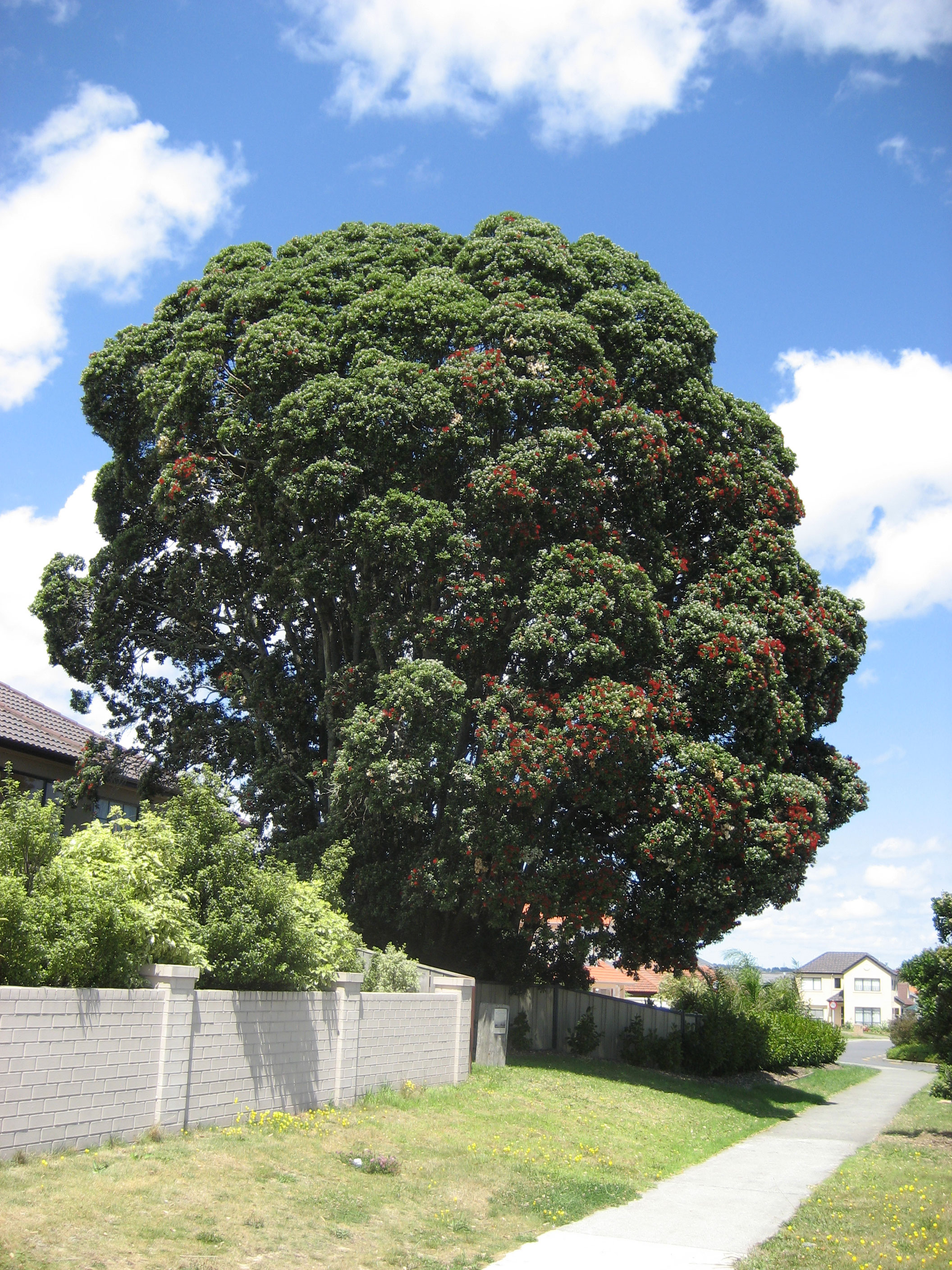 Metrosideros kermadecensis, endemic to the Kermadec Islands, in flower at Auckland, New Zealand.